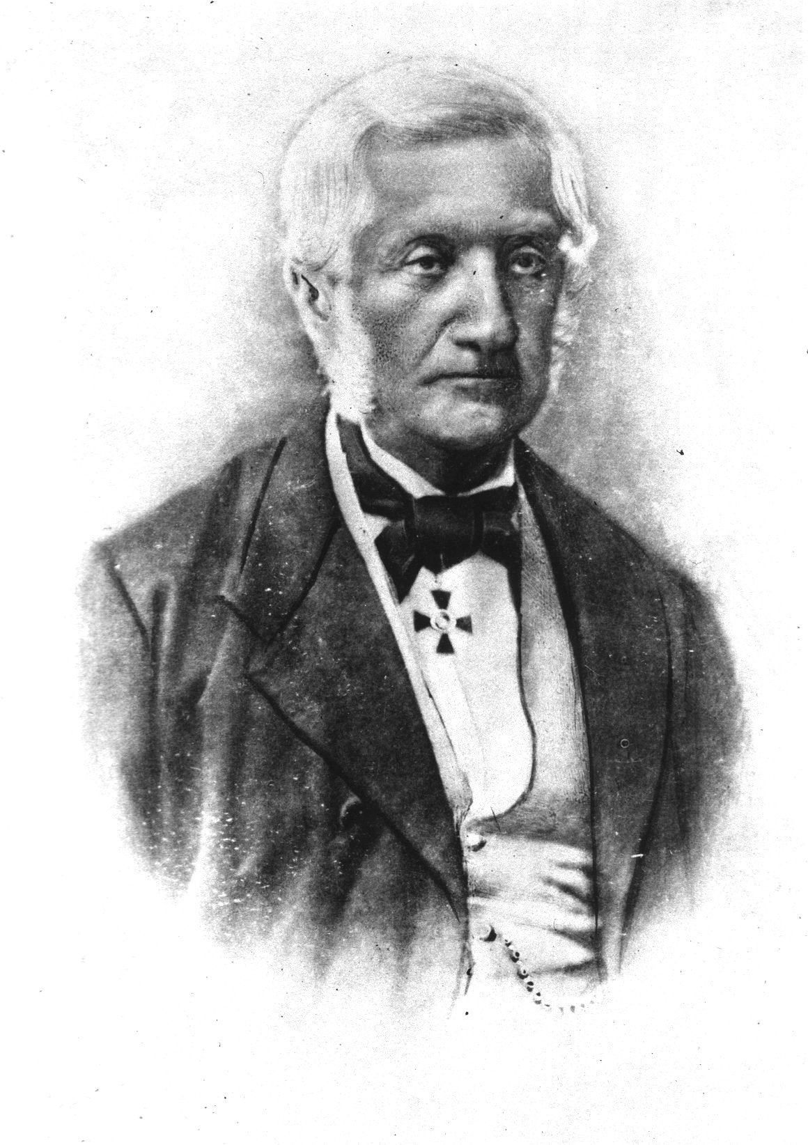 Adamowicz Adam Ferdynand, 1802-1881, physician from Poland